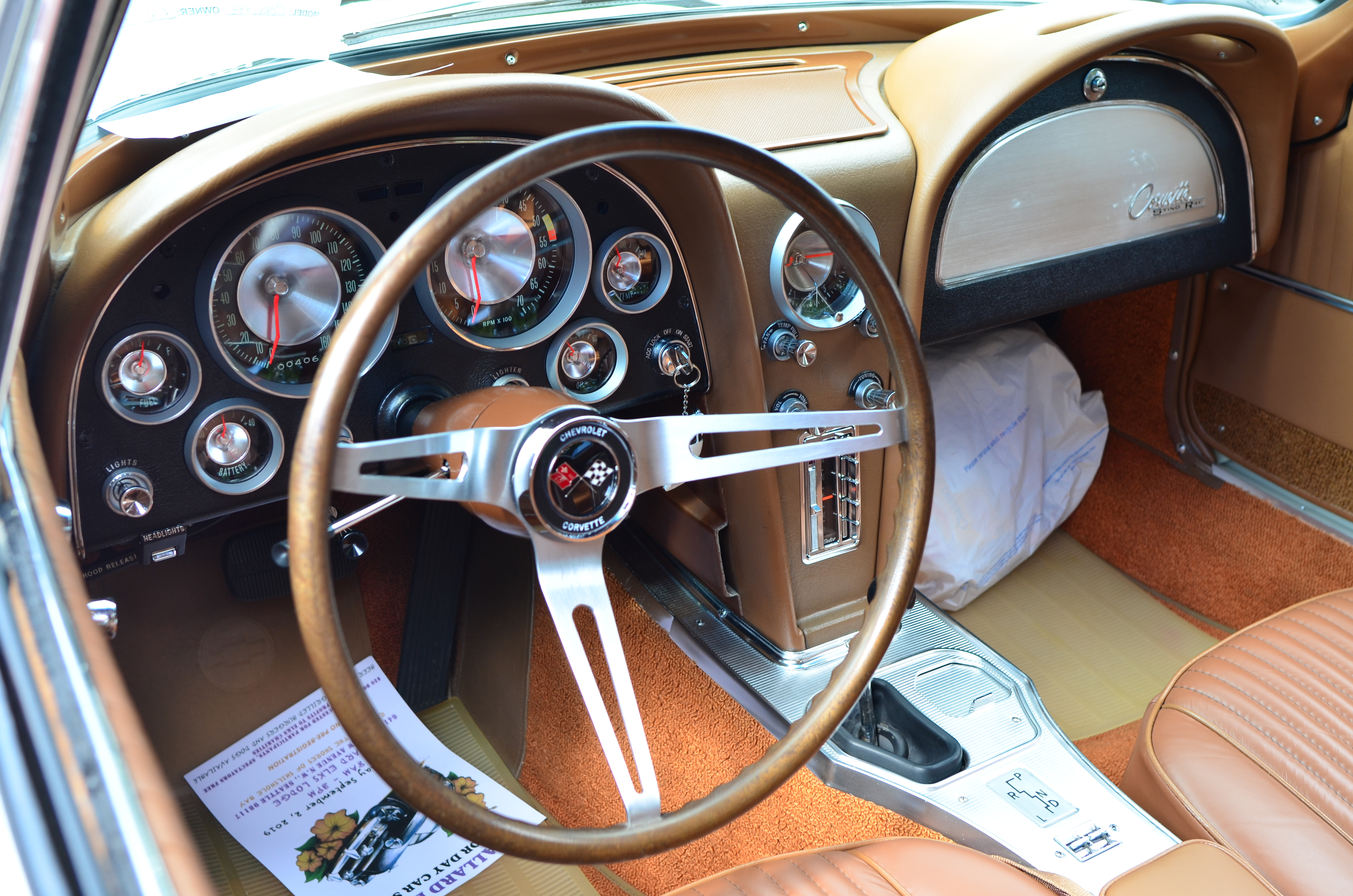 Dashboard, 1963 C-2 Corvette split window, 12th Annual Wedgwood Car Show, Seattle, Washington.